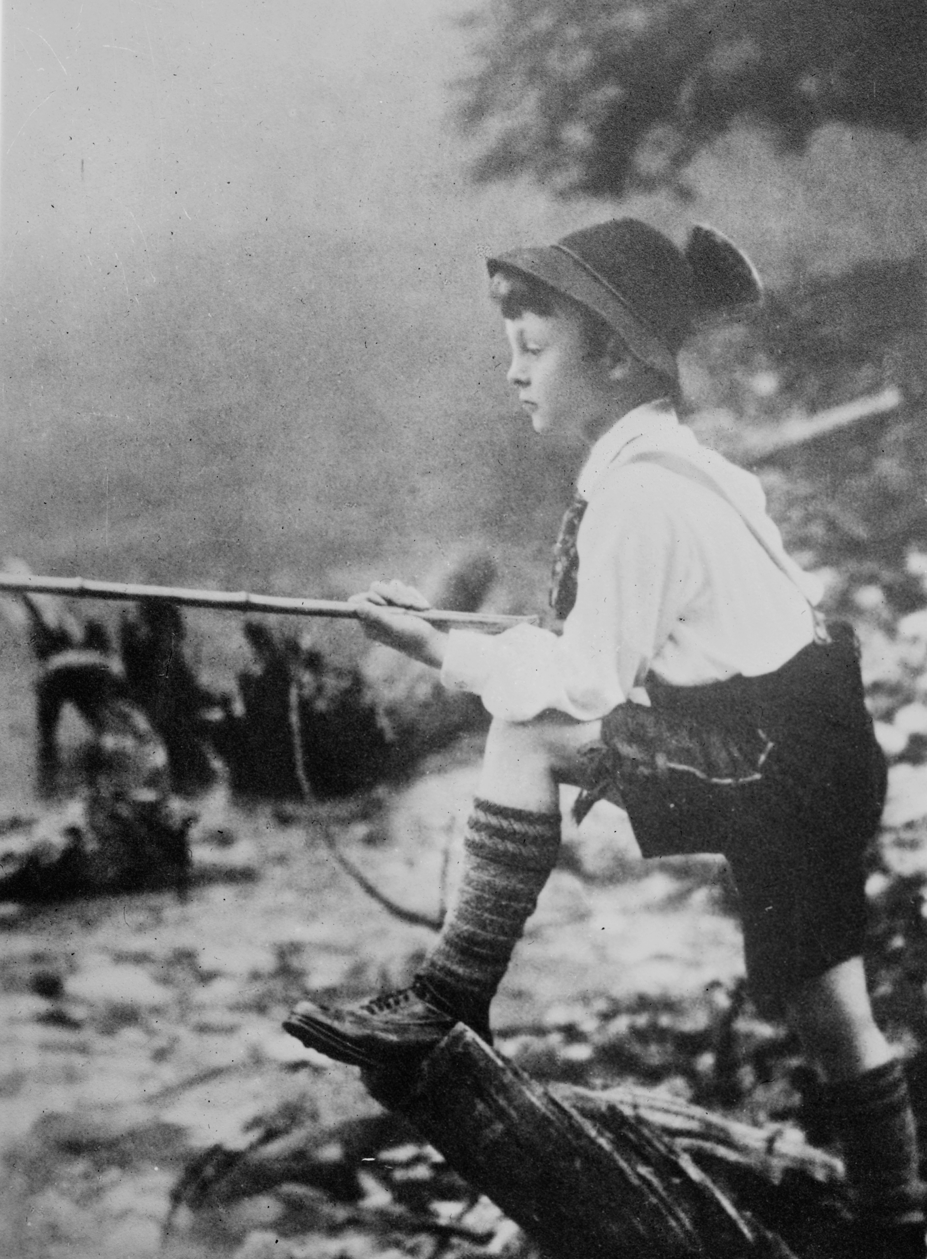 Cropped by the uploader. Title: Prince Albrecht, Bavaria --fishing Creator(s): Bain News Service, publisher Date Created/Published: [between ca. 1910 and ca. 1915] Medium: 1 negative : glass ; 5 x 7 in. or smaller. Reproduction Number: LC-DIG-ggbain-15385 (digital file from original negative) Rights Advisory: No known restrictions on publication. Call Number: LC-B2- 2981-6 [P&P] Repository: Library of Congress Prints and Photographs Division Washington, D.C. 20540 USA Notes: Title from unverified data provided by the Bain News Service on the negatives or caption cards. Forms part of: George Grantham Bain Collection (Library of Congress). General information about the Bain Collection is available at Additional information about this photograph might be available through the Flickr Commons project at Format: Glass negatives. Collections: Bain Collection Bookmark This Record